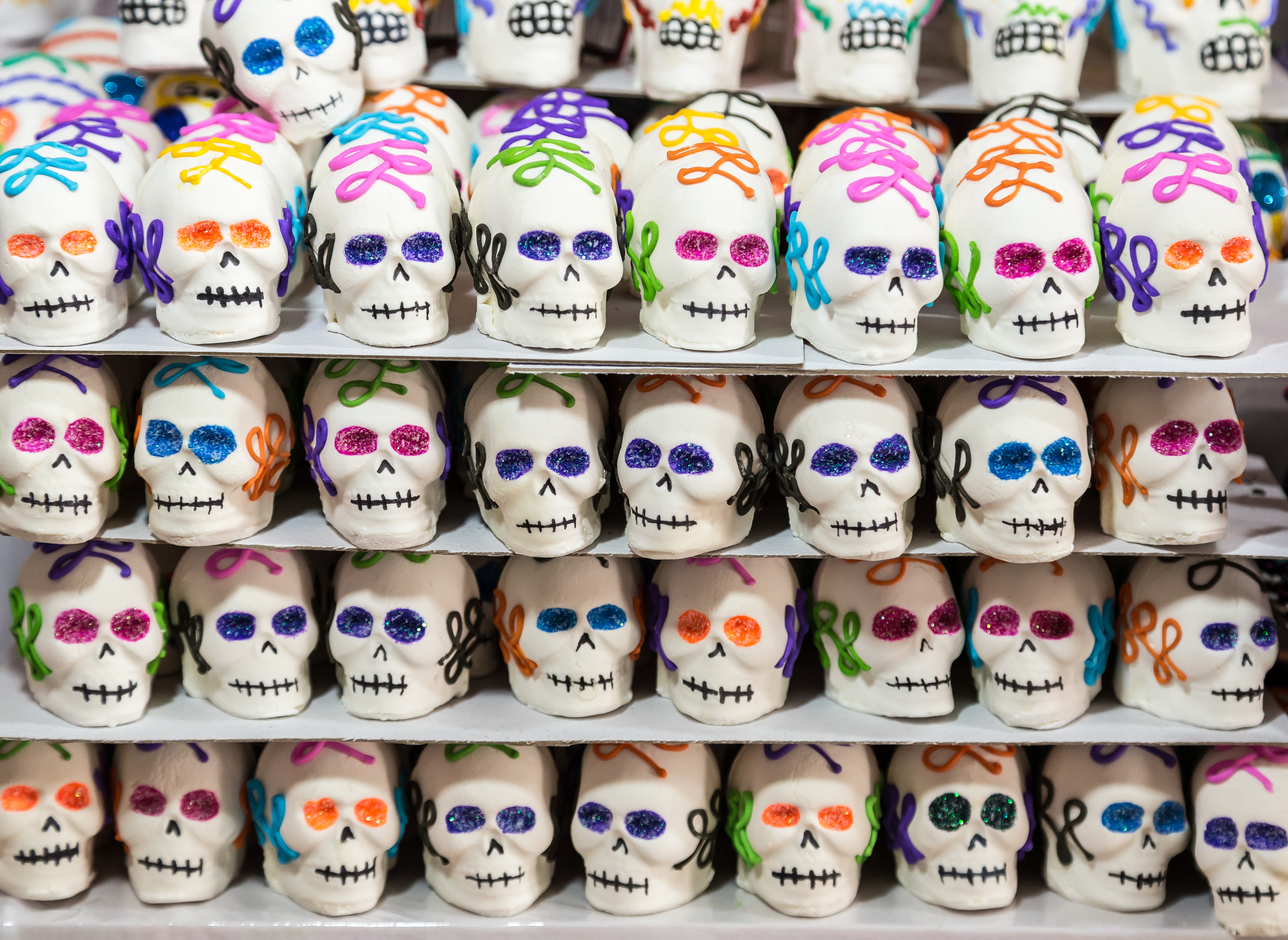 Alfeñiques are sugar figures made during Day of the Dead celebrations in Mexico.